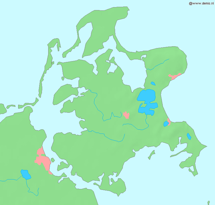 Island Rügen in the Baltic Sea. Bounding box West 12.9°, South 54.2°, East 13.8°, North 54.7°. Center at 54°27′00″N 13°21′00″E / 54.45000°N 13.35000°E.